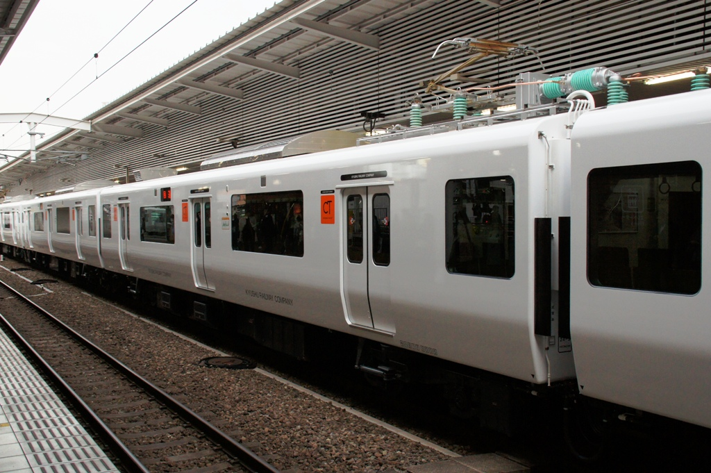 MoHa 817-3005 centre car of JR Kyushu 817-3000 series EMU set V3005